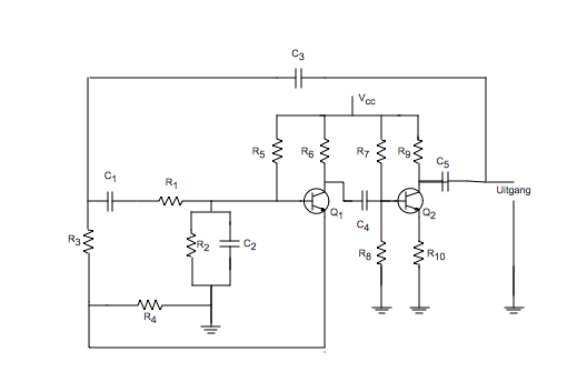 Opstelling Wien-brug